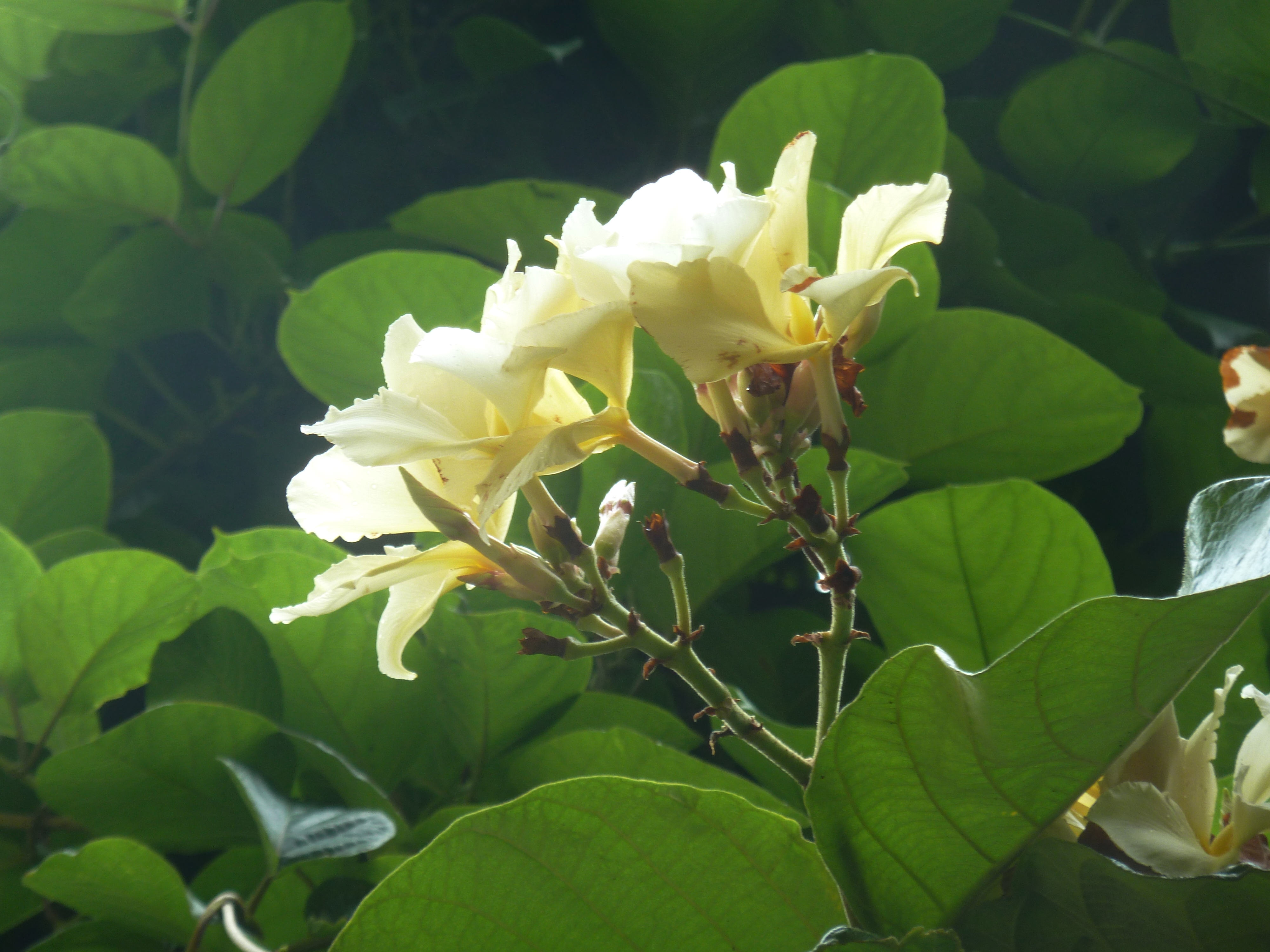 Inflorescence of a Climbing frangipani in the Manie van der Schijff Botanical Garden, Pretoria